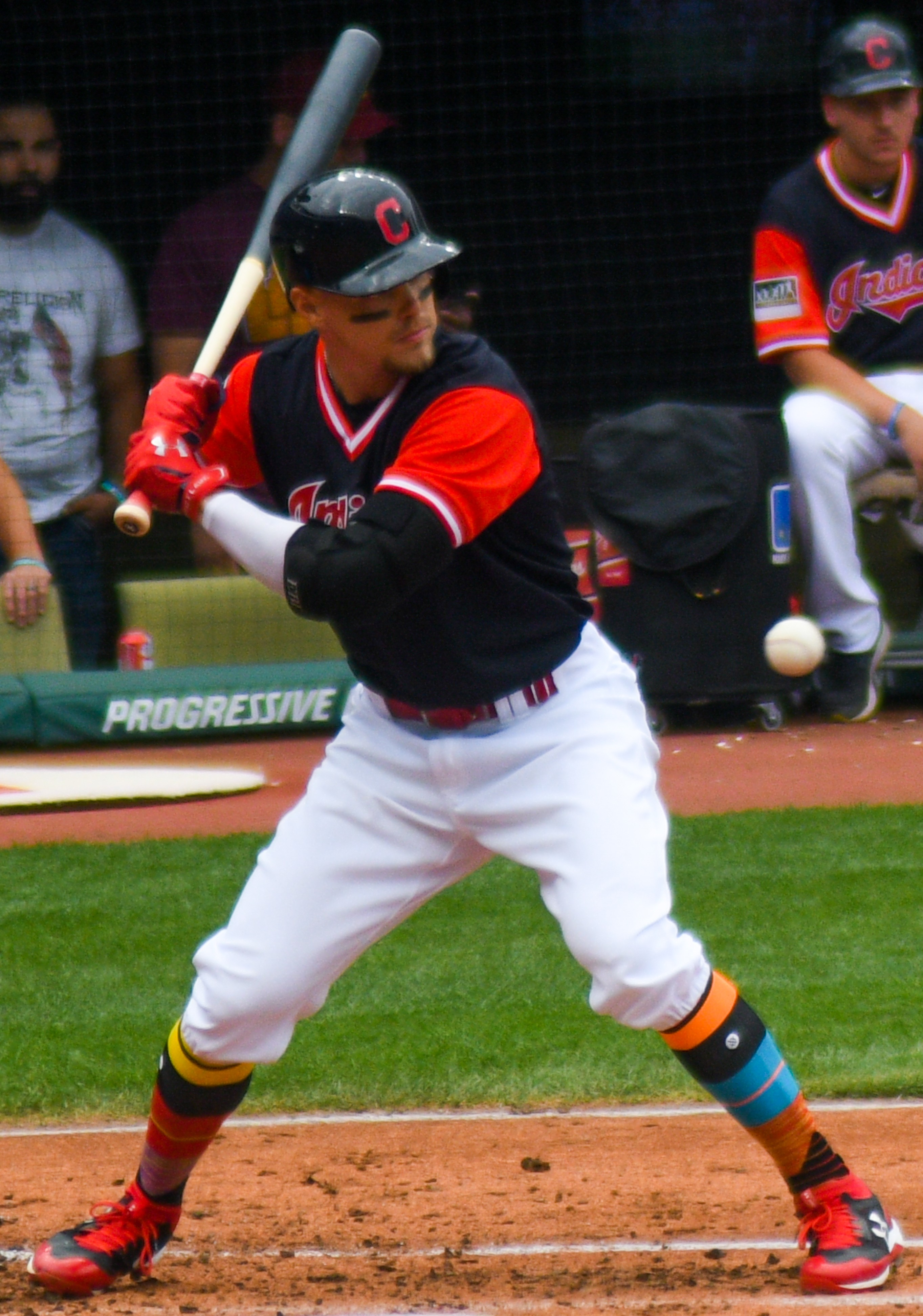 Brandon Guyer